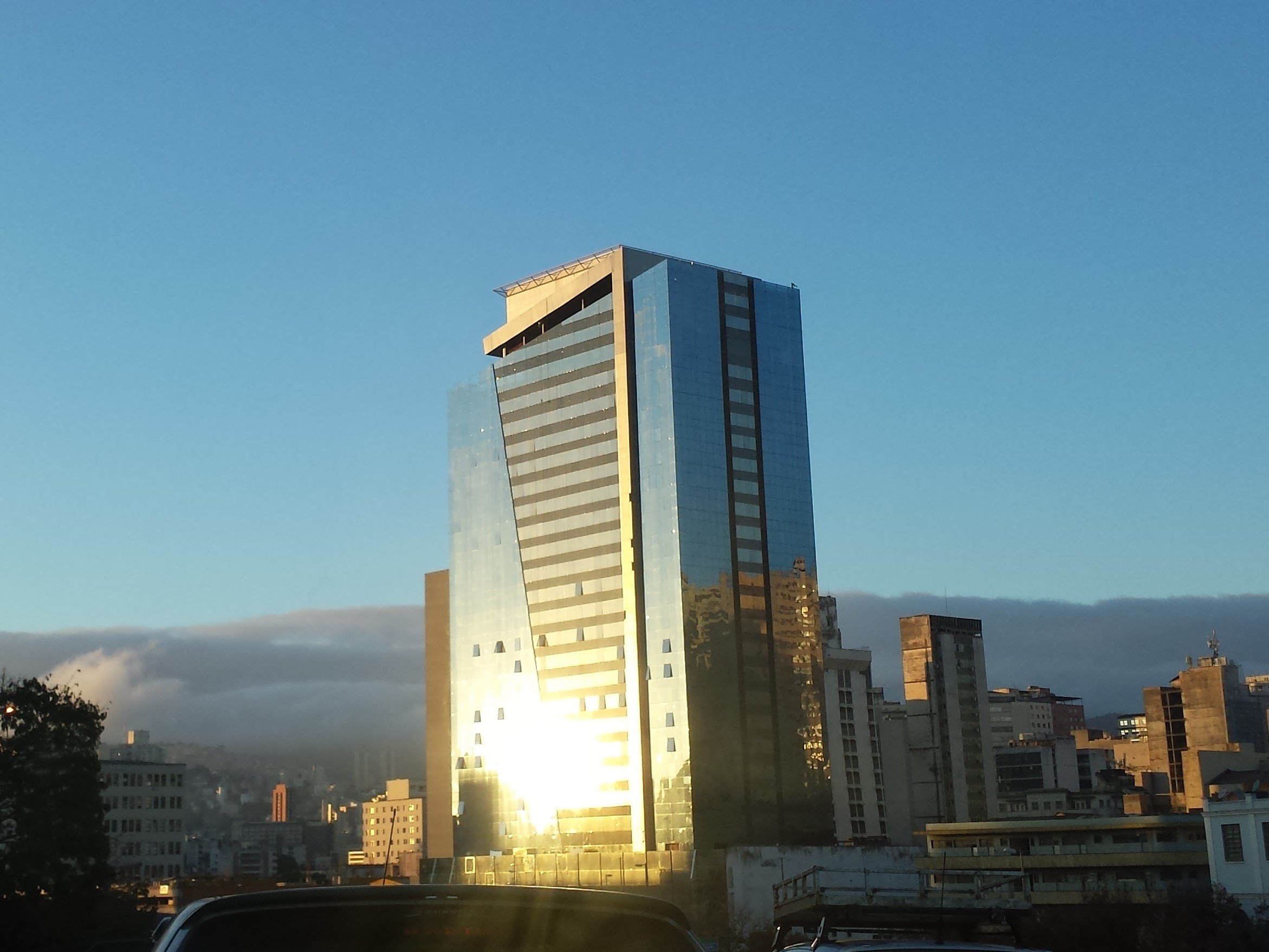 Building downtown Belo Horizonte, Minas Gerais, Brazil